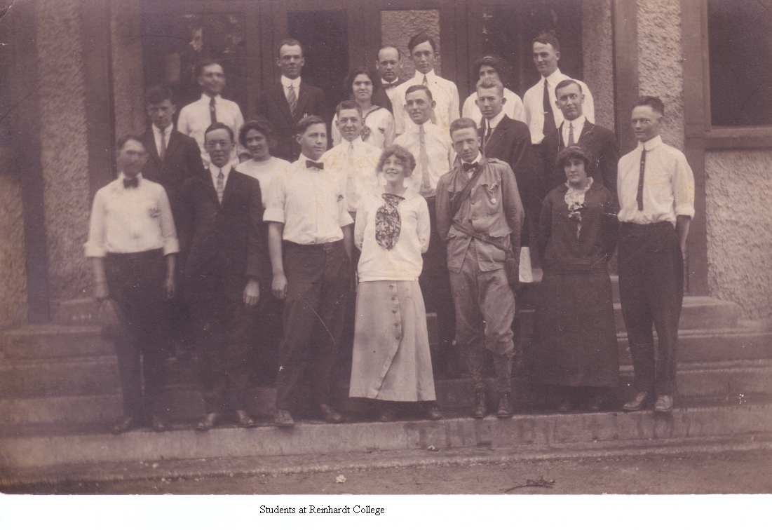 Early Reinhardt College students (c. 1910-1913). This image is to depict what Reinhardt's students looked like in the early 20th century; this campus has lost much of its historical images due to fire; examples of this nature are extremely rare. Source: [1]